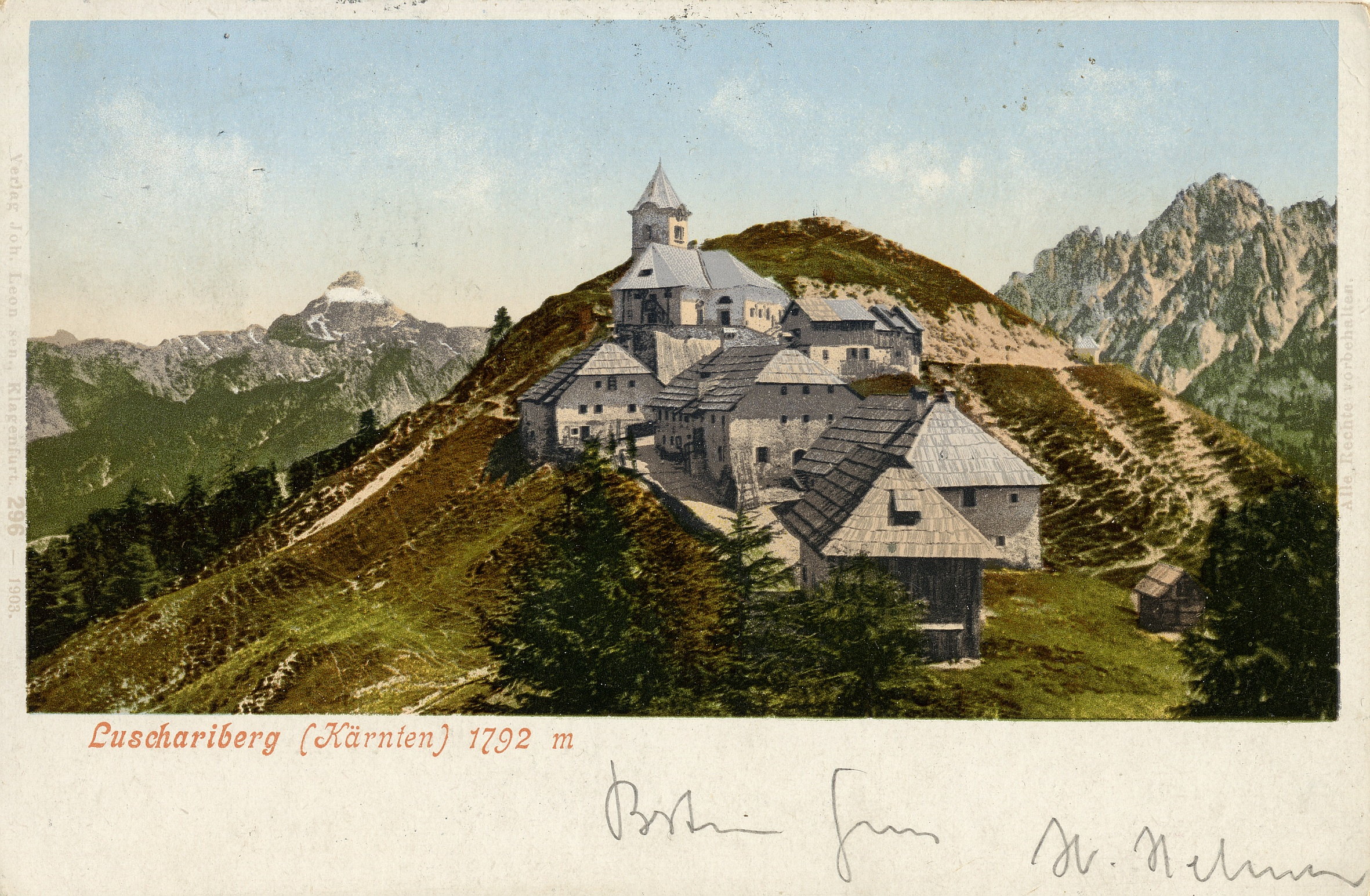 Monte Santo di Lussari 1903, a mountain and place of pilgrimage, at that time part of Carinthia, nowadays in the community of Tarvisio in Friuli-Venezia Giulia / Italy / EU. Santo di Lussari was in former times a very popular place of pilgrimage.